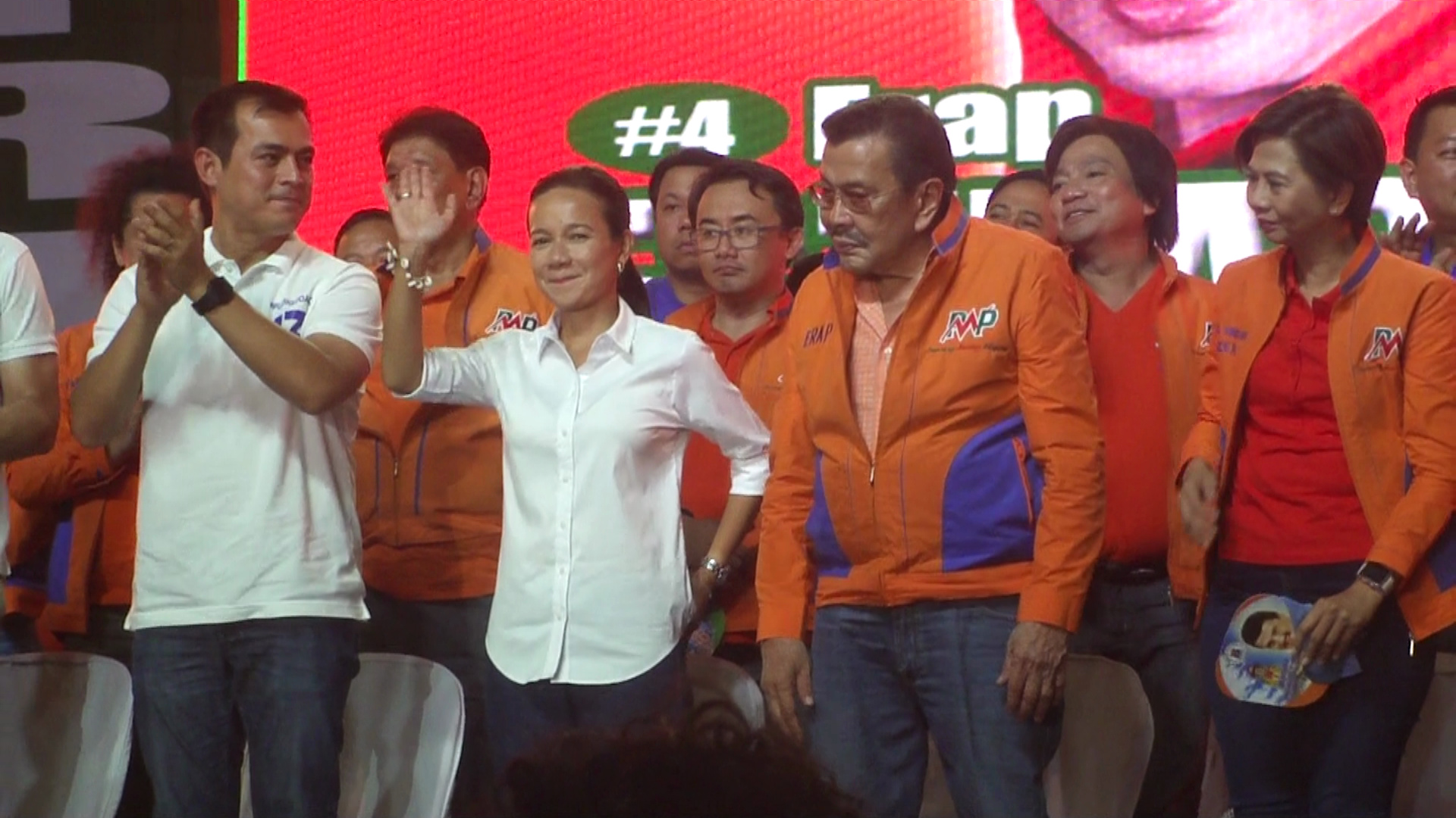 Joseph Erap Estrada's 2016 Manila election campaign rally in Tondo, Manila - with Isko Moreno, Grace Poe, Erap